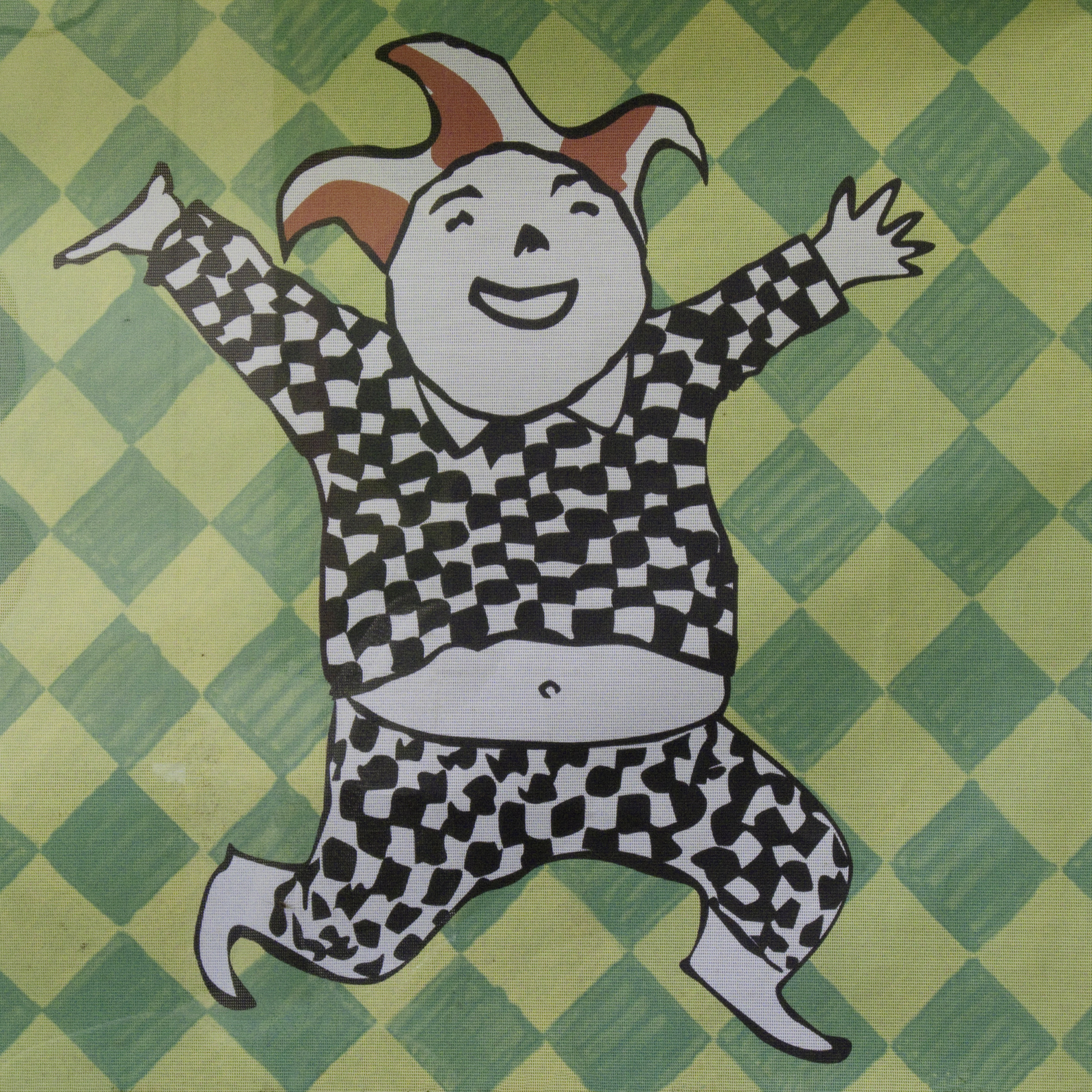 Logo of České Budějovice band Kašpárek v rohlíku